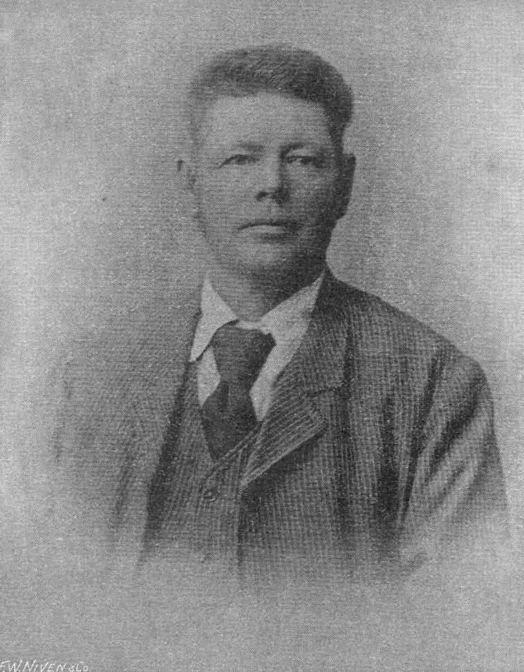 Scan from original